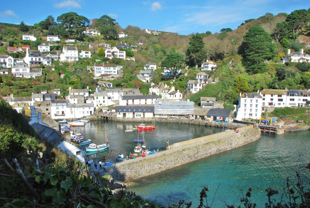 Polperro: Harbour, near to Polperro, Cornwall, Great Britain. Harbour wall and harbour